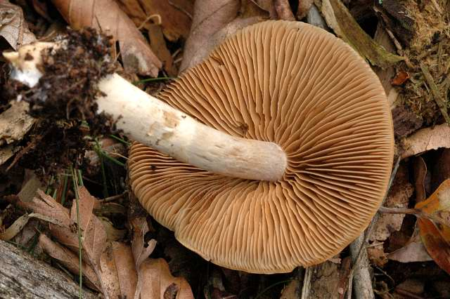 Cortinarius rigens from Commanster, Belgian High Ardennes .